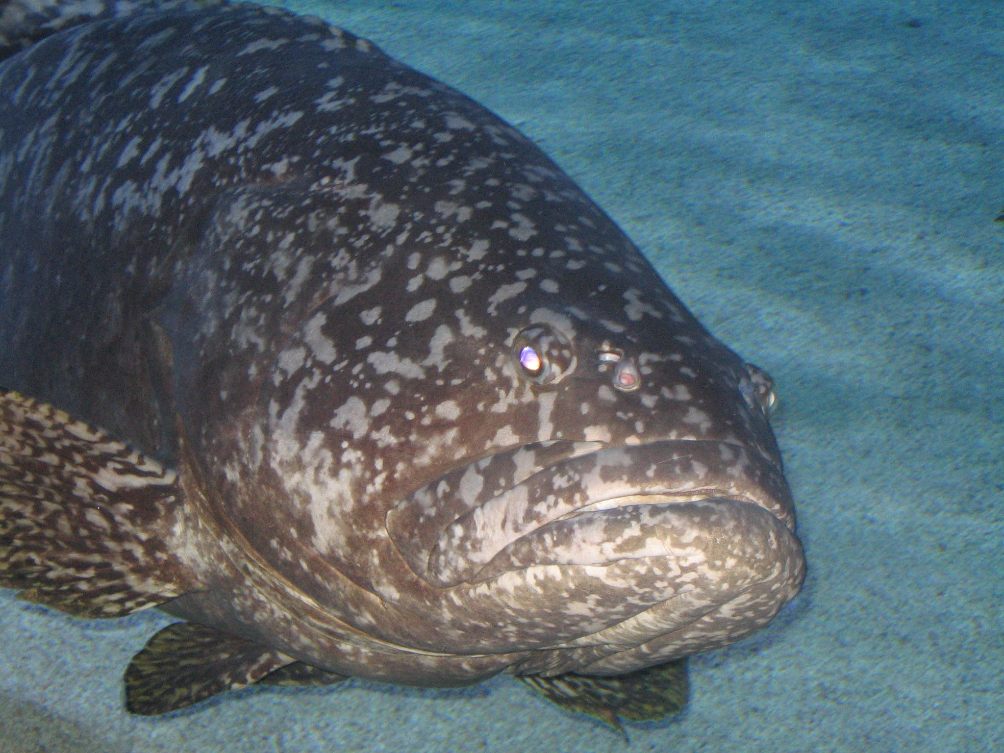 Giant Grouper (Queensland Grouper) (Epinephelus lanceolatus) in an aquarium. This specimen is approximately 1.5 m long.